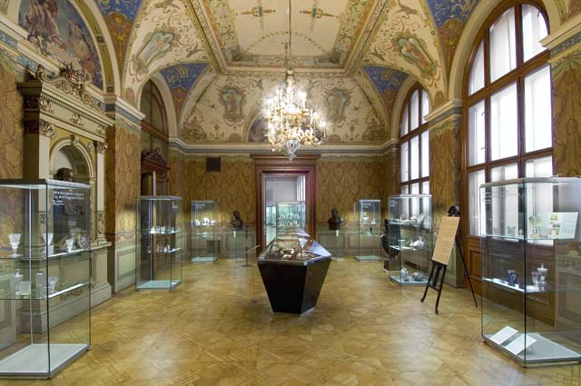 Votive hall in The Museum of Decorative Arts in Prague